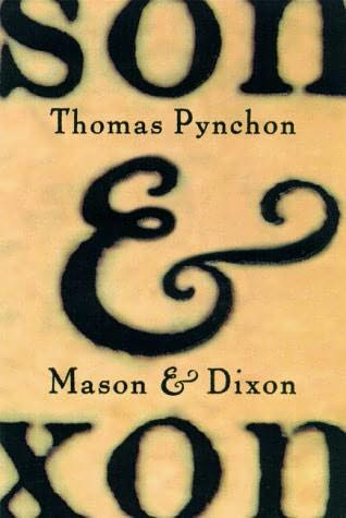 Cover to Mason & Dixon by Thomas Pynchon